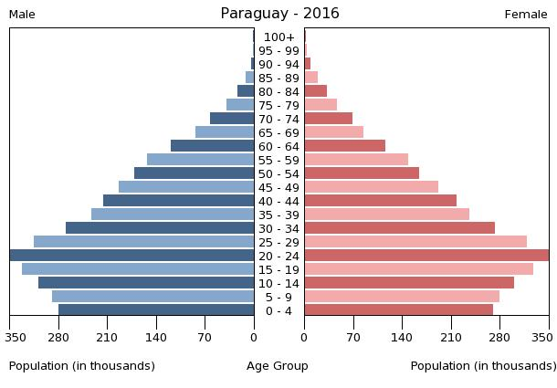 The population pyramid of Paraguay illustrates the age and sex structure of population and may provide insights about political and social stability, as well as economic development. The population is distributed along the horizontal axis, with males shown on the left and females on the right. The male and female populations are broken down into 5-year age groups represented as horizontal bars along the vertical axis, with the youngest age groups at the bottom and the oldest at the top. The shape of the population pyramid gradually evolves over time based on fertility, mortality, and international migration trends.